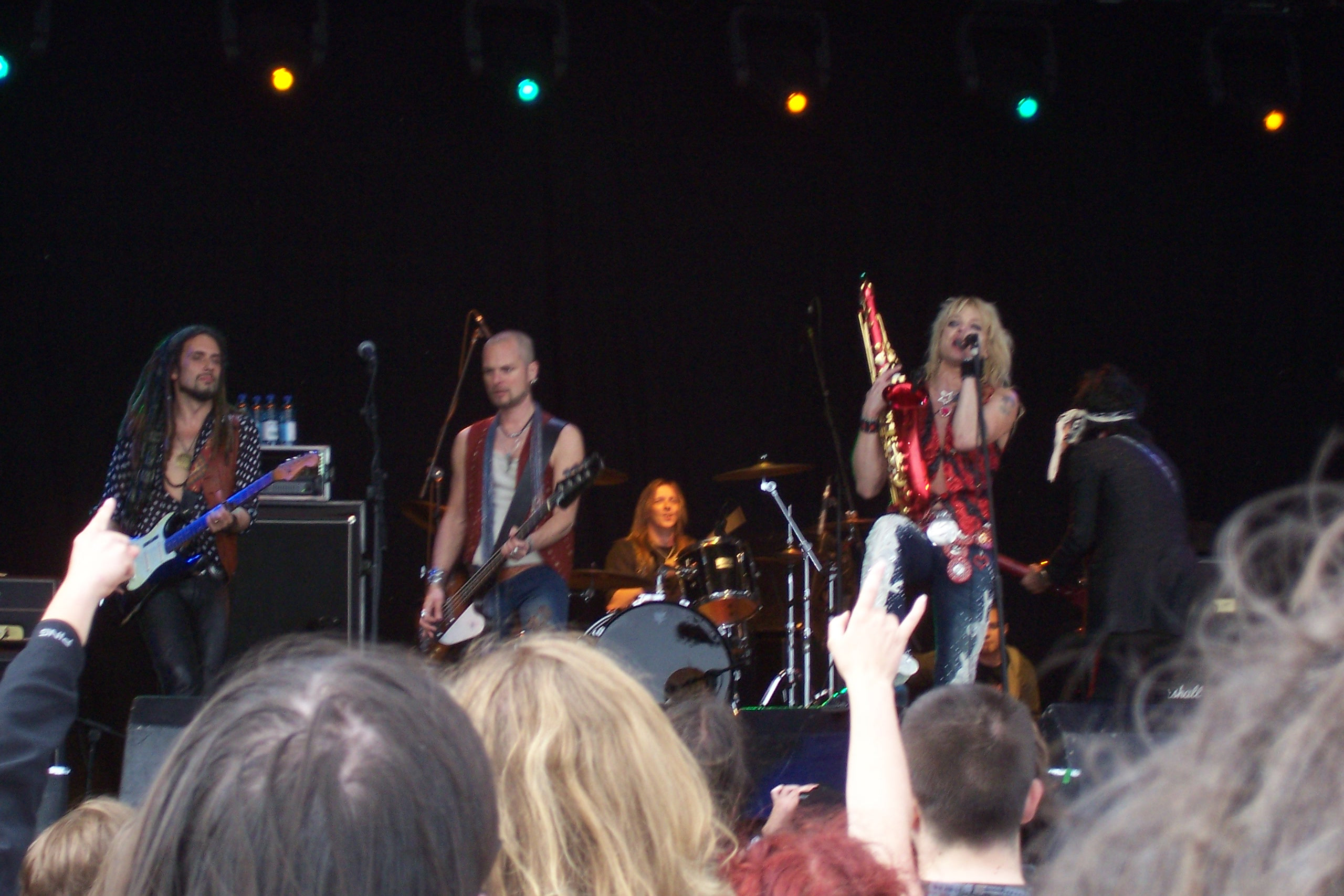 Hanoi Rocks performing on stage at the Scarborough Rock in the Castle festival.